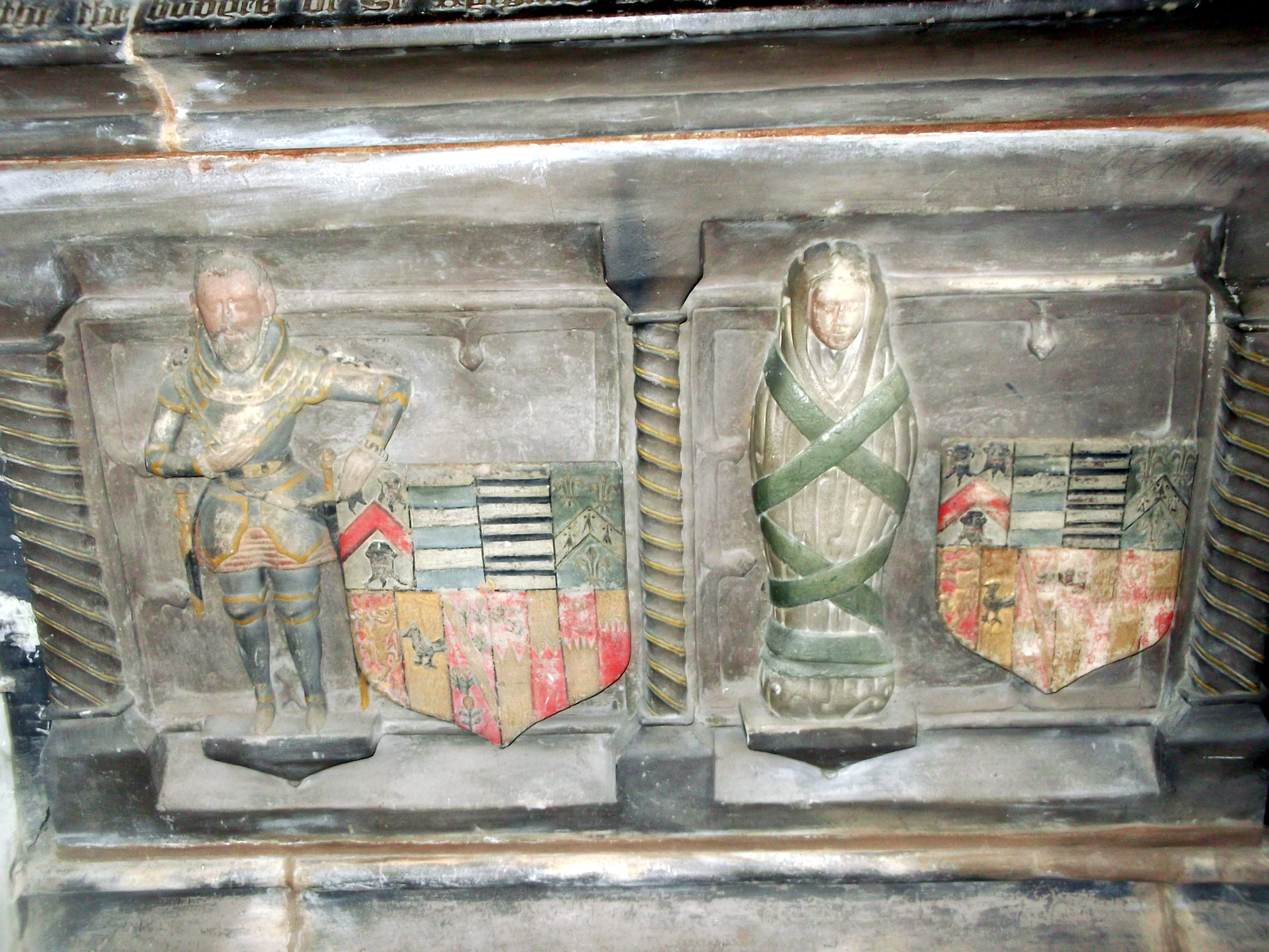 Children of Margaret Bromley and her husband, Richard Newport, depicted on their tomb in St Andrew's church, Wroxeter, Shropshire.